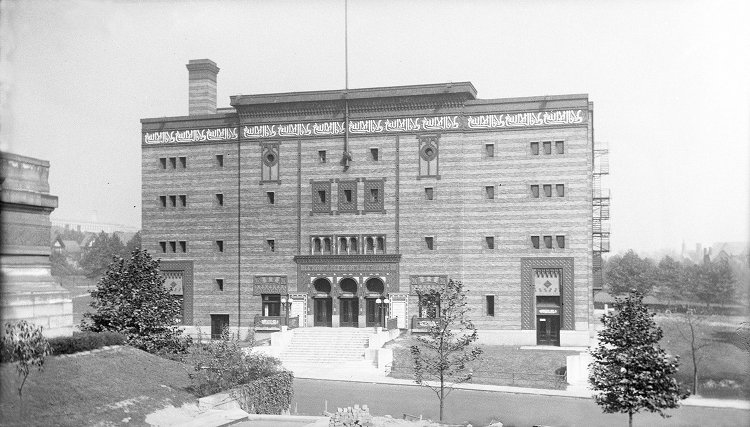 Edward J. Shourek documented various places in Pittsburgh including the birthplace of network television, Syria Mosque.